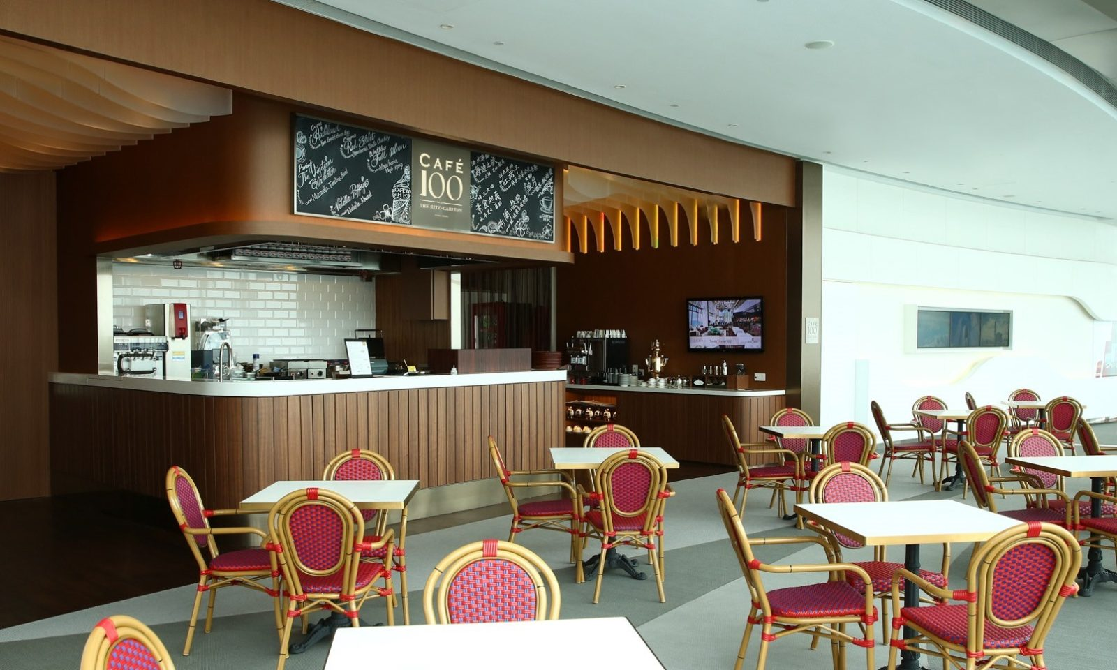 Cafe100 by The Ritz-Carlton, Hong Kong